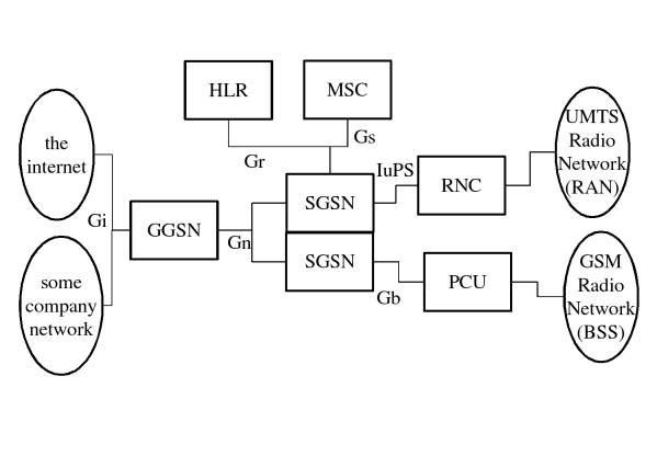 Structure of a GPRS Core network. This diagram shows the simplified structure of a GPRS Core Network along with the names of some of the interfaces / reference points between systems. . Gi - the reference point at which the GPRS core network connects to the internet. Alternatively, corporate customers may have a direct connection to this point for higher security. This reference point is normally just an IP network, though a tunnelling protocol such as GRE, IPinIP or IPsec may be used instead. Gr - the reference point between the SGSN and the HLR used to allow the SGSN to retrieve subscriber information from the HLR. The communication here is based on SS7 Gb - the interface between the SGSN and the PCU which is the point of connection of the GPRS core network to the GSM radio network (BSS). This carries both signalling and user data. The communication here is based on Frame Relay. IuPS - the interface between the SGSN and the RNC which is the point of connection of the GPRS core network to the UMTS Radio Access Network UTRAN. The communication here is abased on Broadband SS7 over ATM for signalling and GTP-U over IP for user data. Gs - the connection between the SGSN and the MSC. This is optional and is used primarily in GSM networks to improve signalling efficiency, especially on the radio interface. In UMTS almost the same effect is achieved simply through the action of the RNC. This interface uses the BSSAP+ Protocol. This diagram is an export from an Open Office drawing. The original is also available for editing. I am hereby donating this copy of the diagram to the Wikipedia project under the GFDL Mozzerati 09:54, 2004 May 16 (UTC)